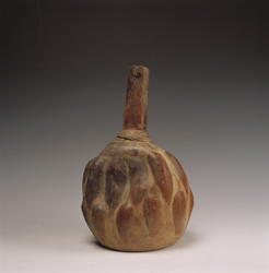 Moche Chili (Ají). Larco Museum Collection. Free Use.